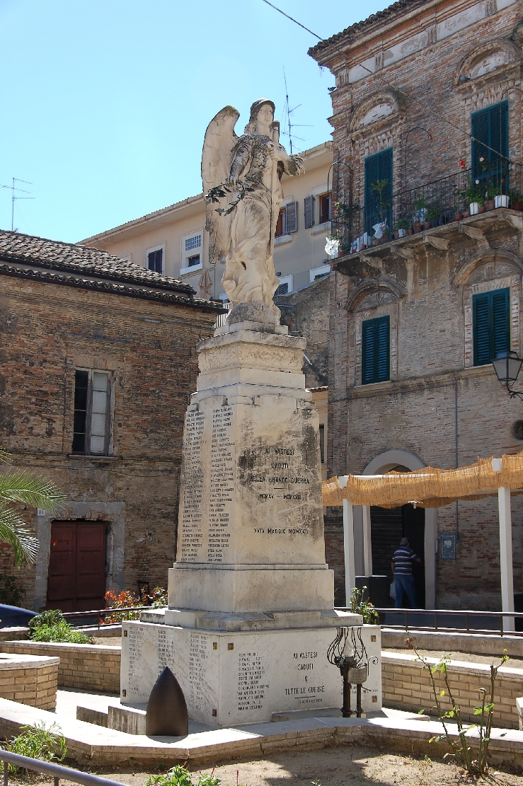 Vasto 2011